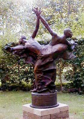 Self